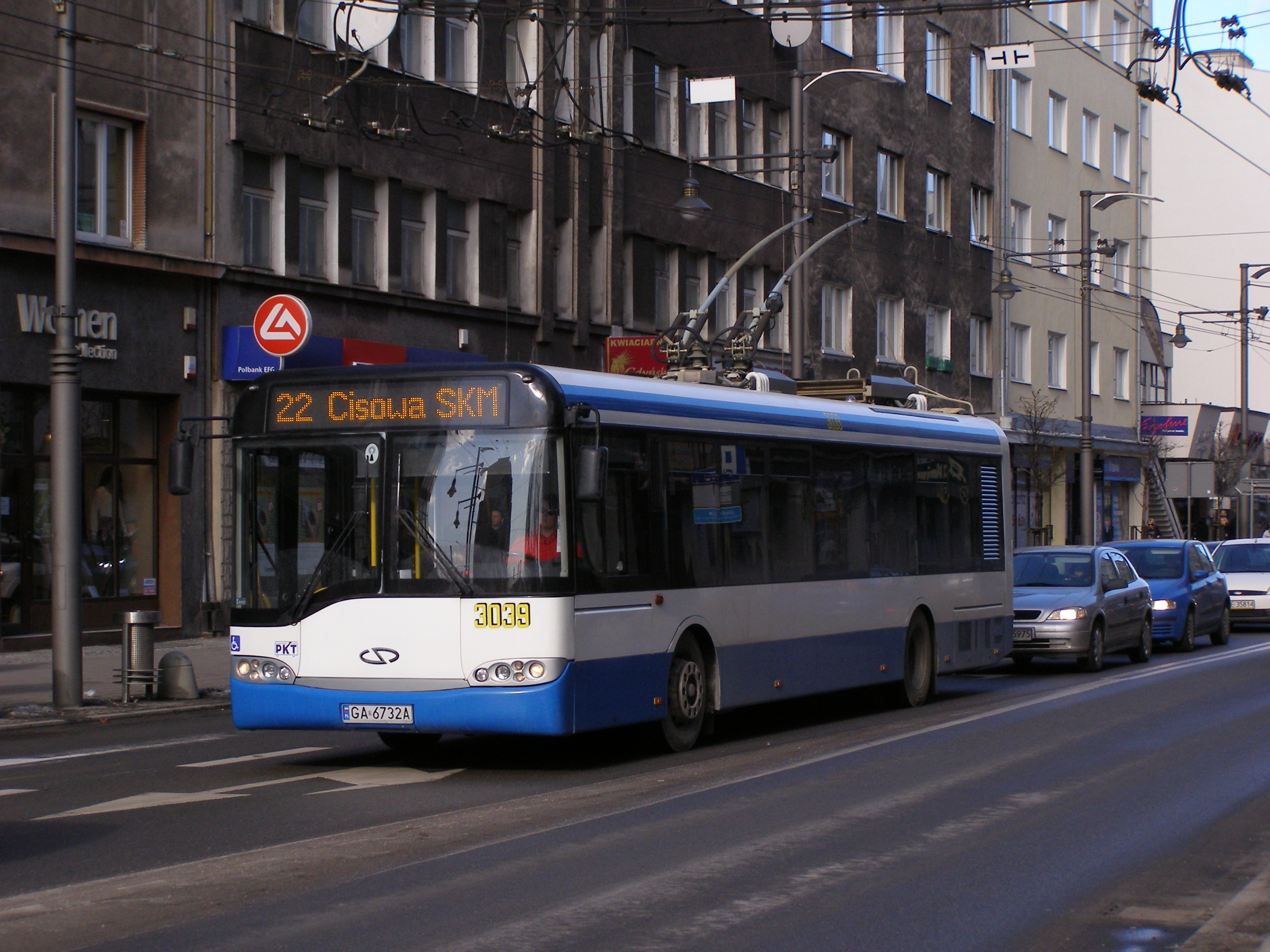 Gdynia - Świętojańska str., Solaris Trollino 12T trolleybus #3039 on line No. 22